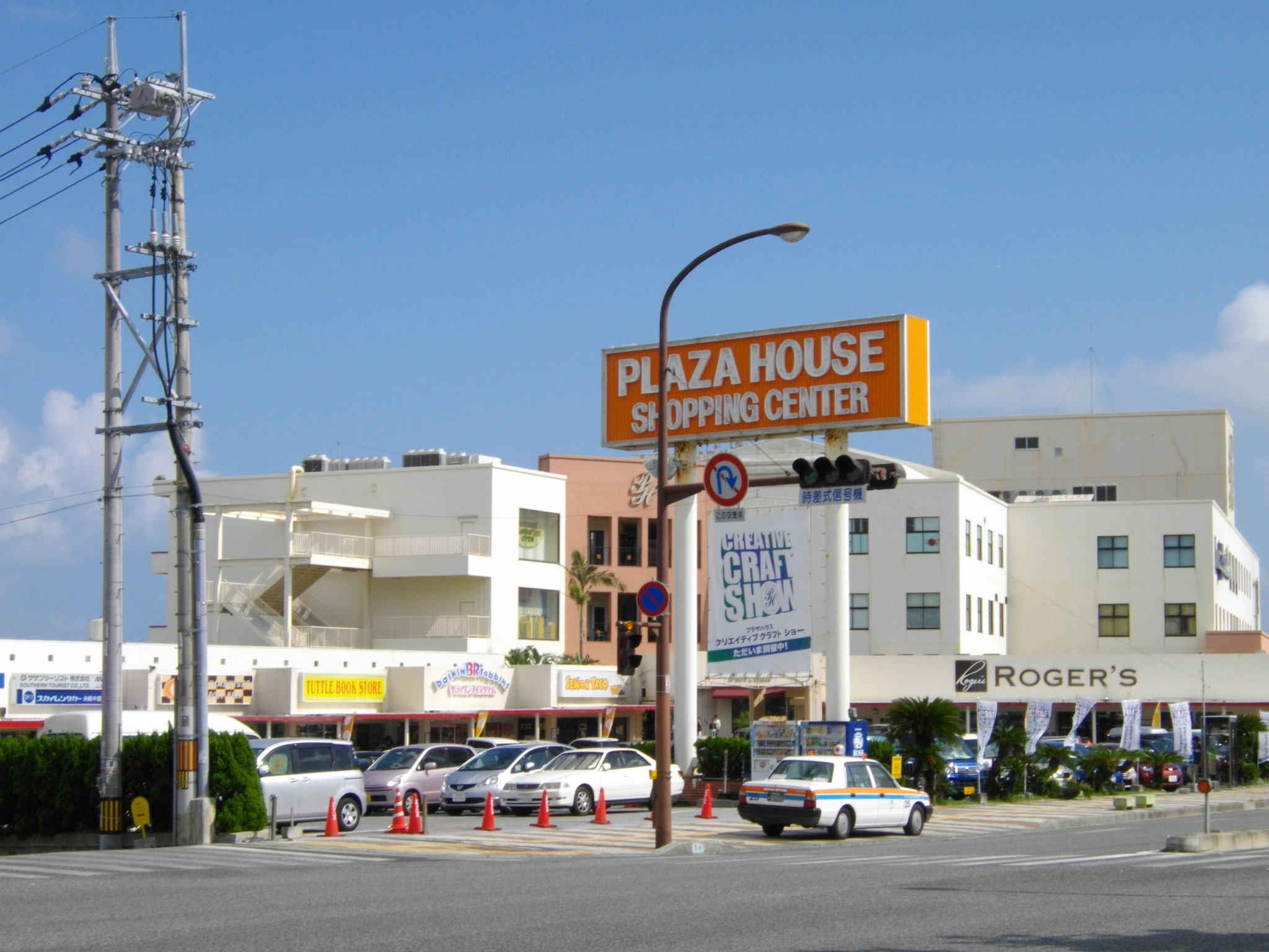 Plaza House Shopping Center